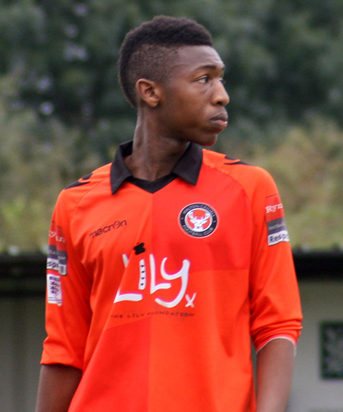 Ebou Adams playing for Walton Casuals